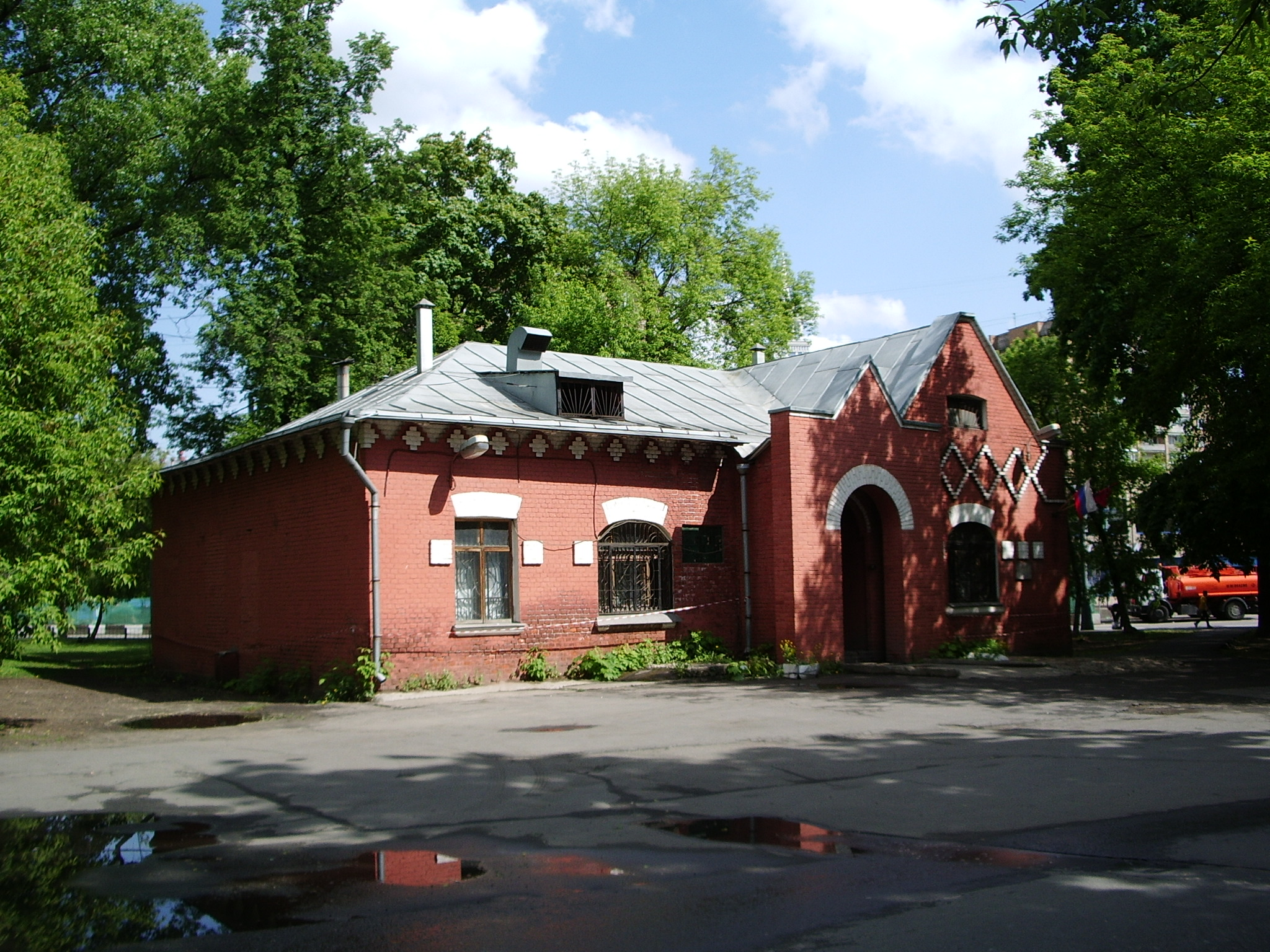 Chapel of the Moscow cemetery "Arbatets". Built in 1911 by Roman Klein.